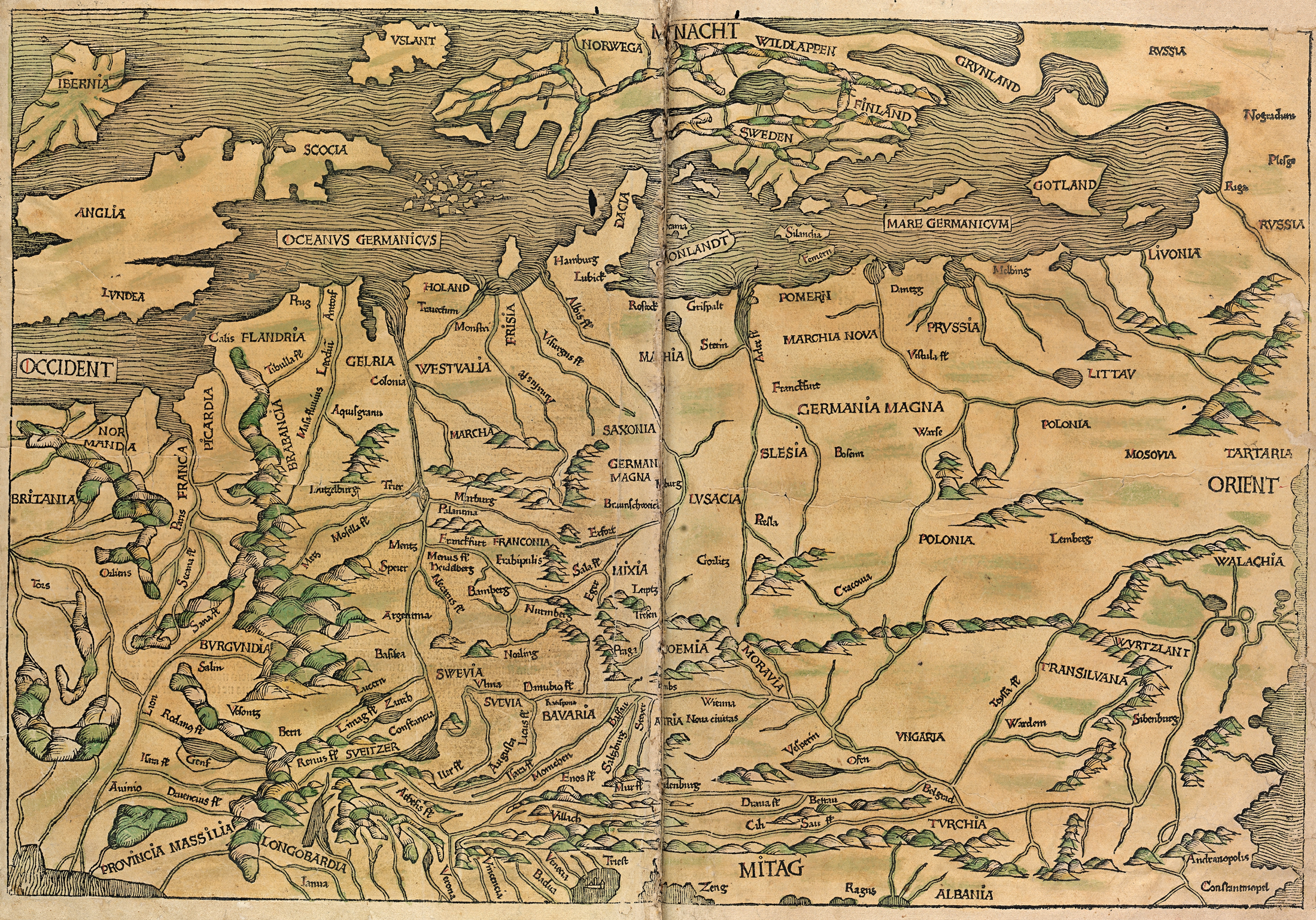 Map of Germany from the Nuremberg Chronicle